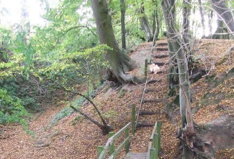 The Grundle is part of the Stanton Woods biological Site of Special Scientific Interest south of Stanton in Suffolk.